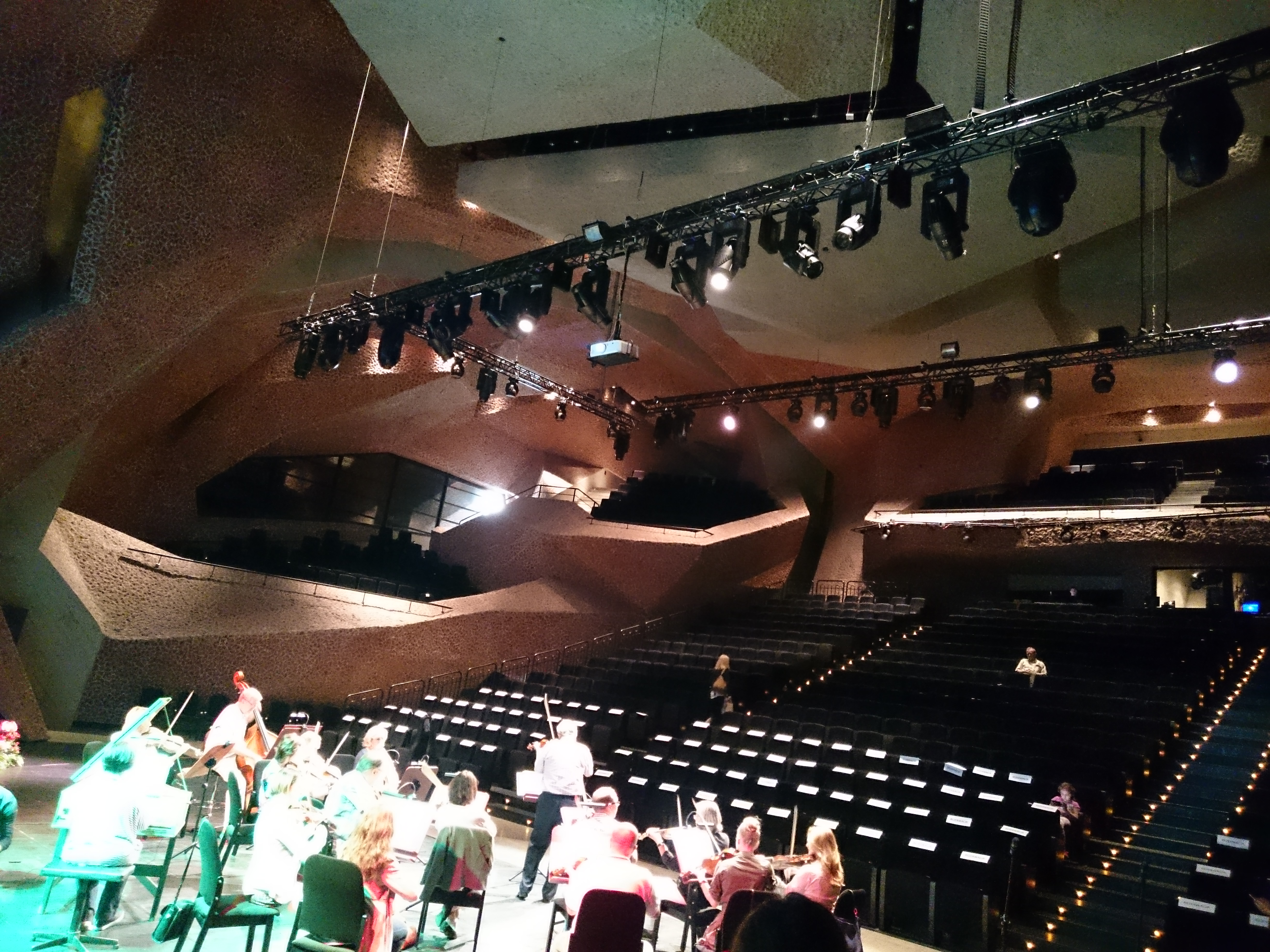 Auditorium of Conference and Cultural Centre "Jordanki", Toruń, Poland